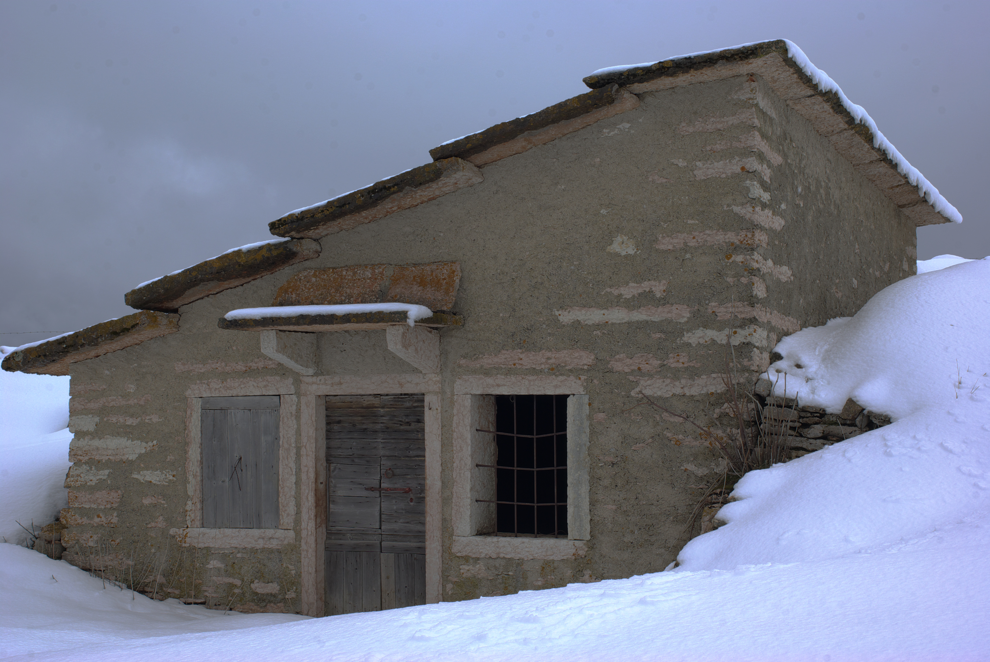 Bosco Chiesanuova (Grietz Dossetti Tinazzo) Lessinia VR Italy 2013-04-01 photo CTG ACA LESSINIA Paolo Villa